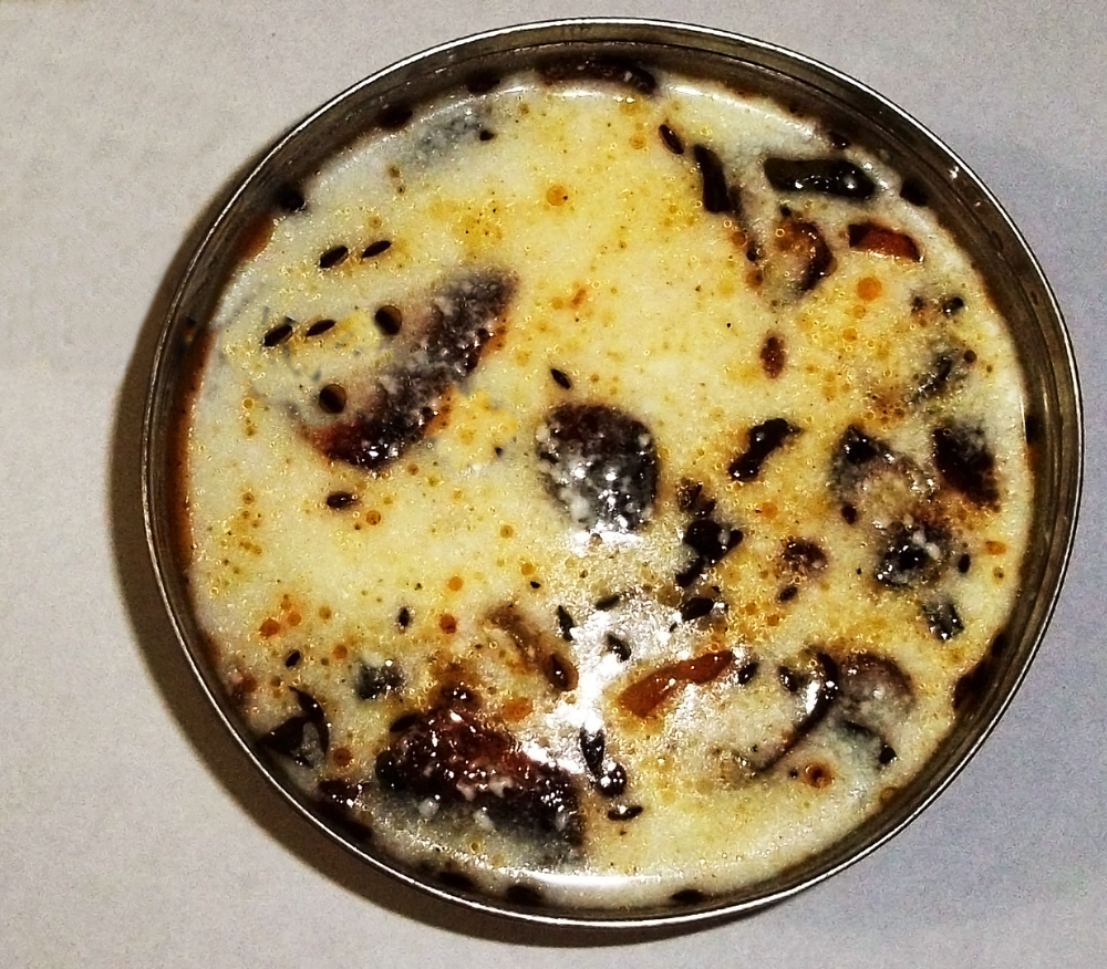 Odia cuisine Dahi-Badi.